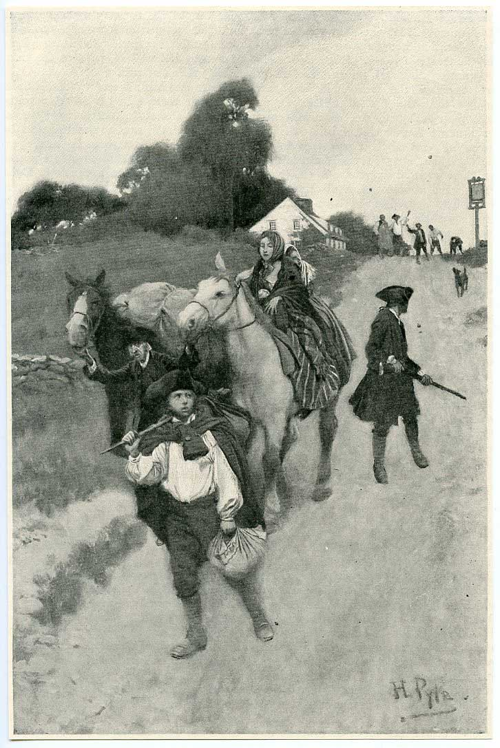 "Tory Refugees on the Way to Canada" by Howard Pyle. The work appeared in Harper's Monthly in December 1901.